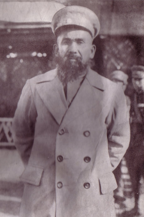 Uighur separatist President of the East Turkestan Republic Khoja Niyaz